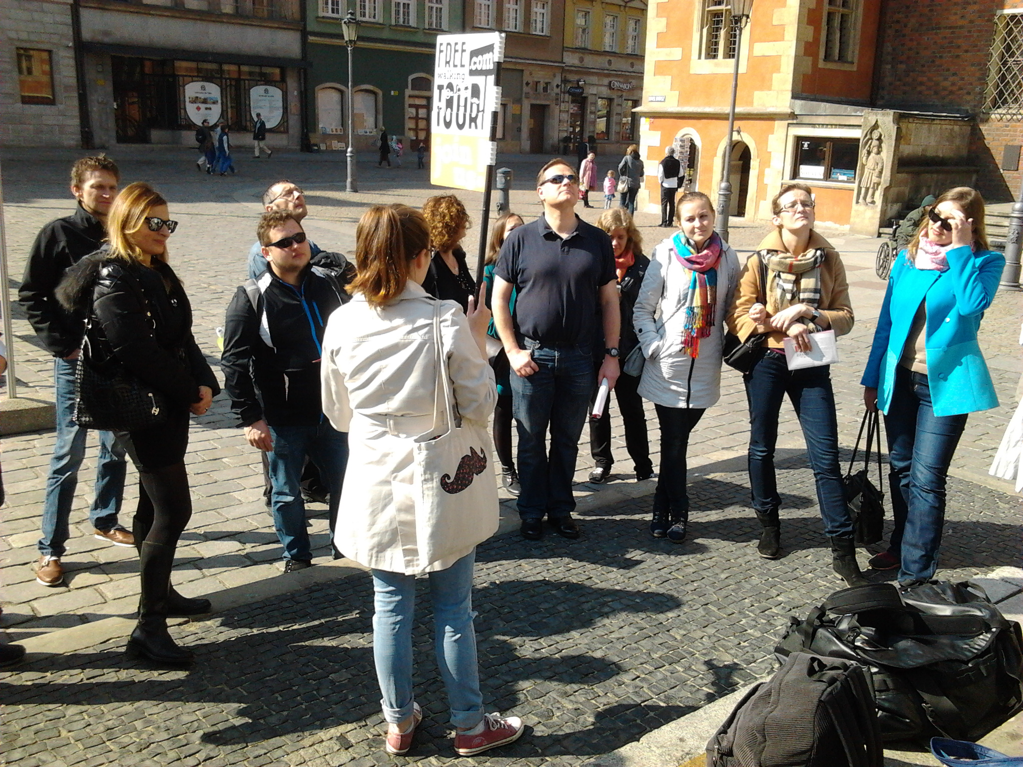 Free guided tour before the pillory. Market Square in Wroclaw.